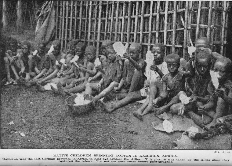 Photograph of Cameroonian children spinning cotton. The original caption reads: "NATIVE CHILDREN SPINNING COTTON IN KAMERUN, AFRICA. "Kamerun was the last German province in Africa to hold out against the Allies. This picture was taken by the Allies since they captured the Colony. The natives were never before photographed."